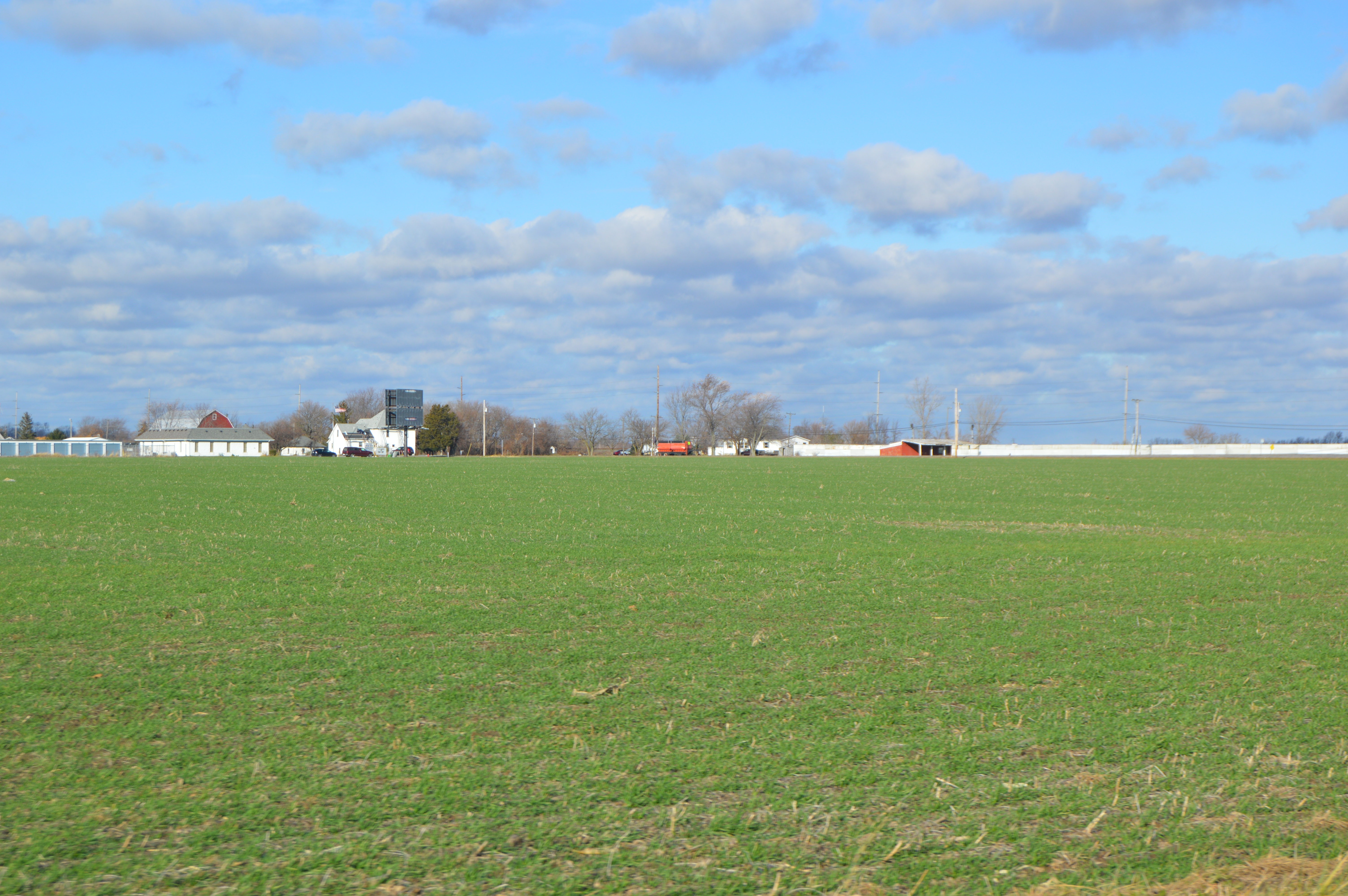 A field of winter wheat, planted in a former cornfield, located on the western side of Road 5-2 south of the U.S. Route 20 Alternate/State Route 2 intersection in northwest Swan Creek Township, Fulton County, Ohio, United States.